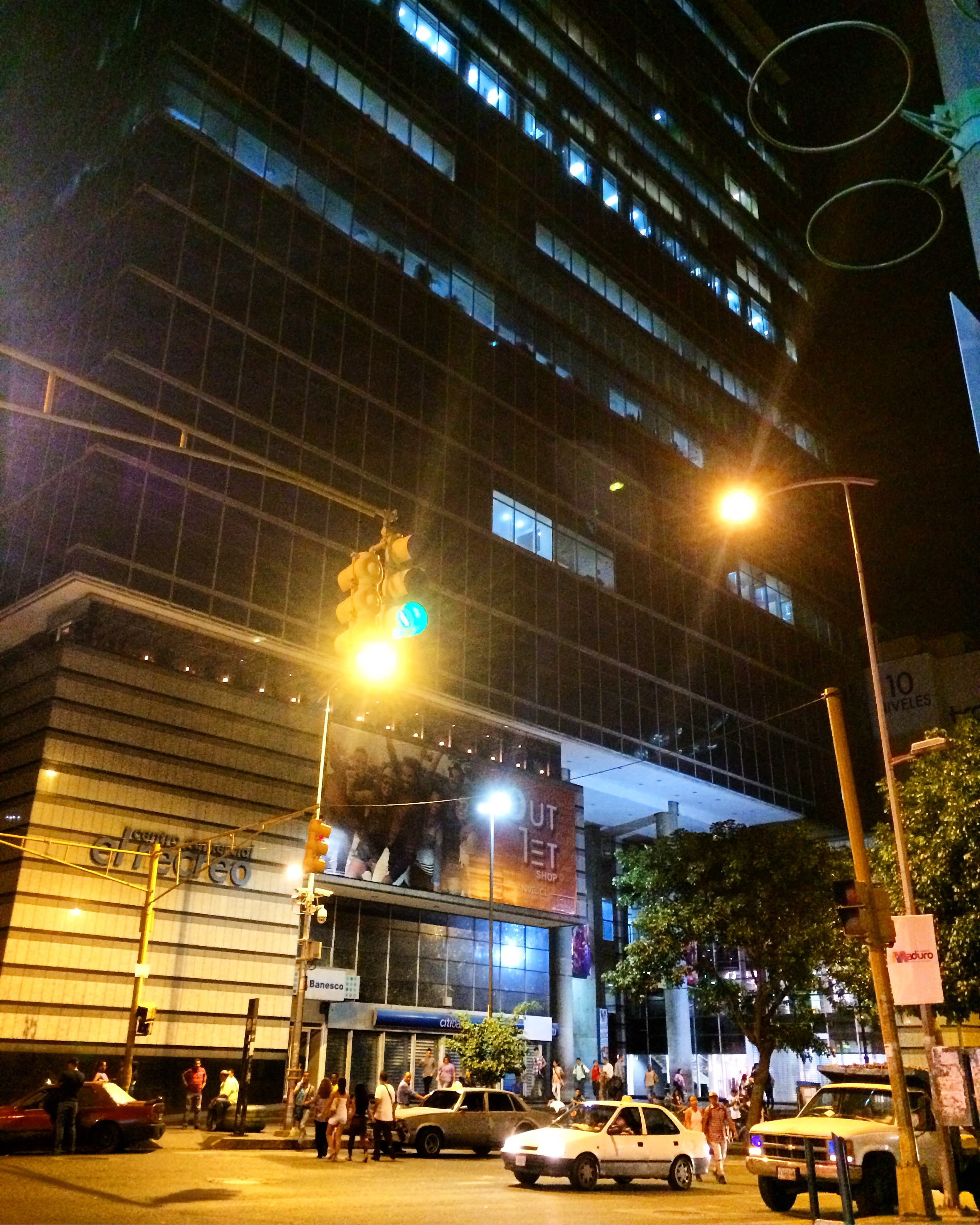 Sabana Grande Caracas Venezuela Centro Comercial El Recreo Avenida Casanova